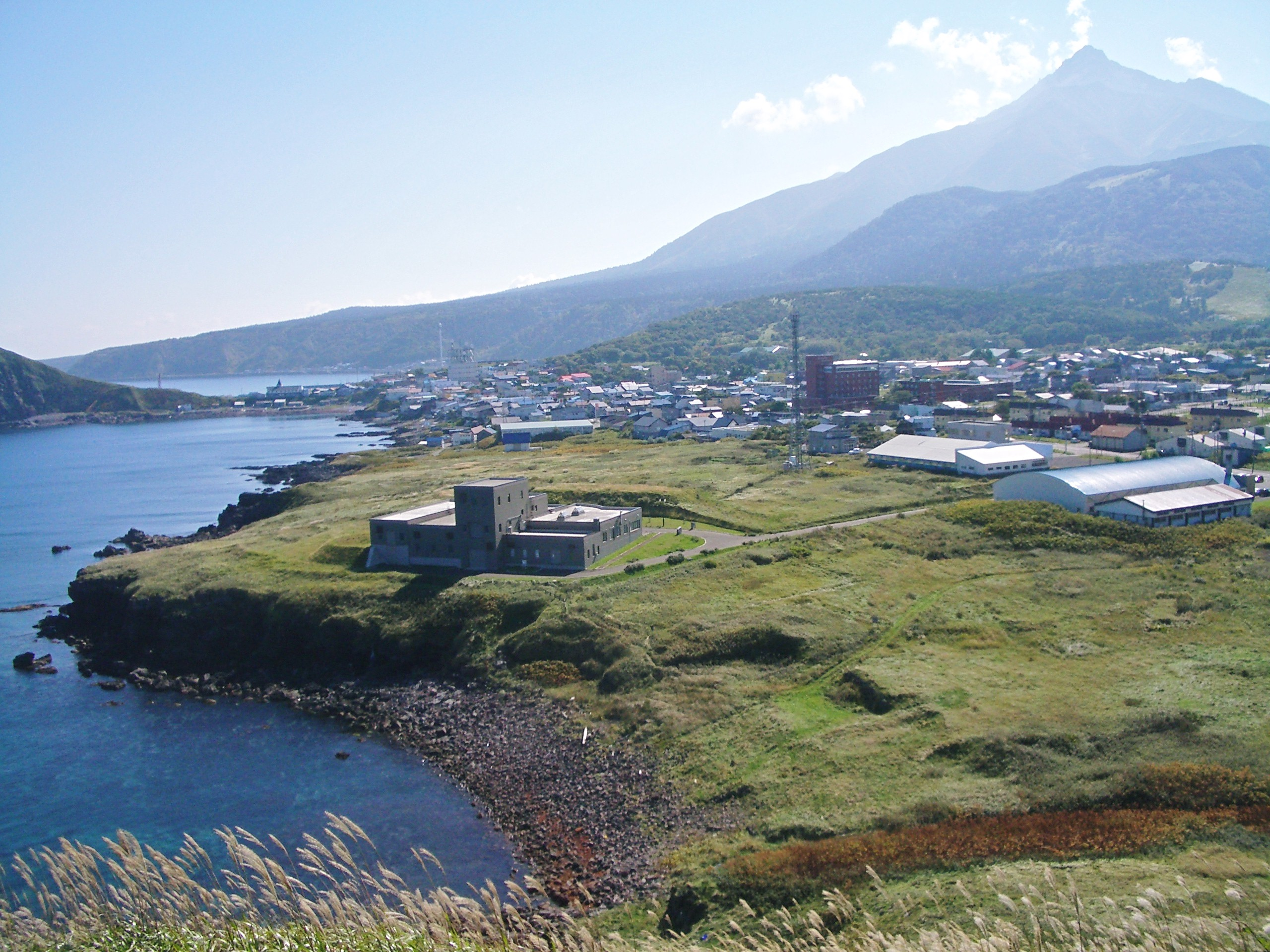 Oshidomari villagi and Mt. Rishiri in the background